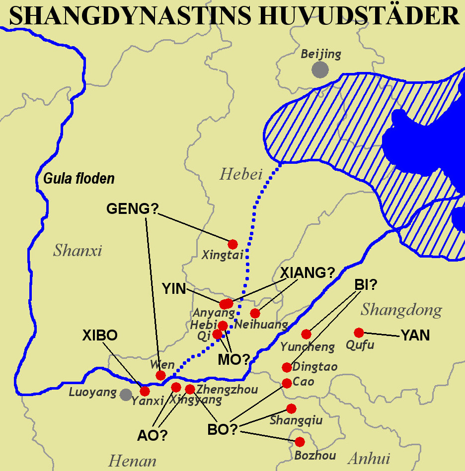 Map over the Chinese Shang dynasty capital cities